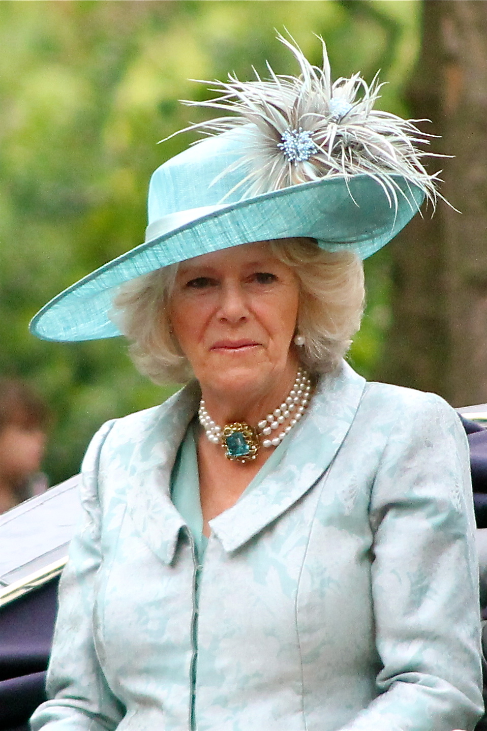 Dss of Cornwall at Trooping the Colour, June 2012